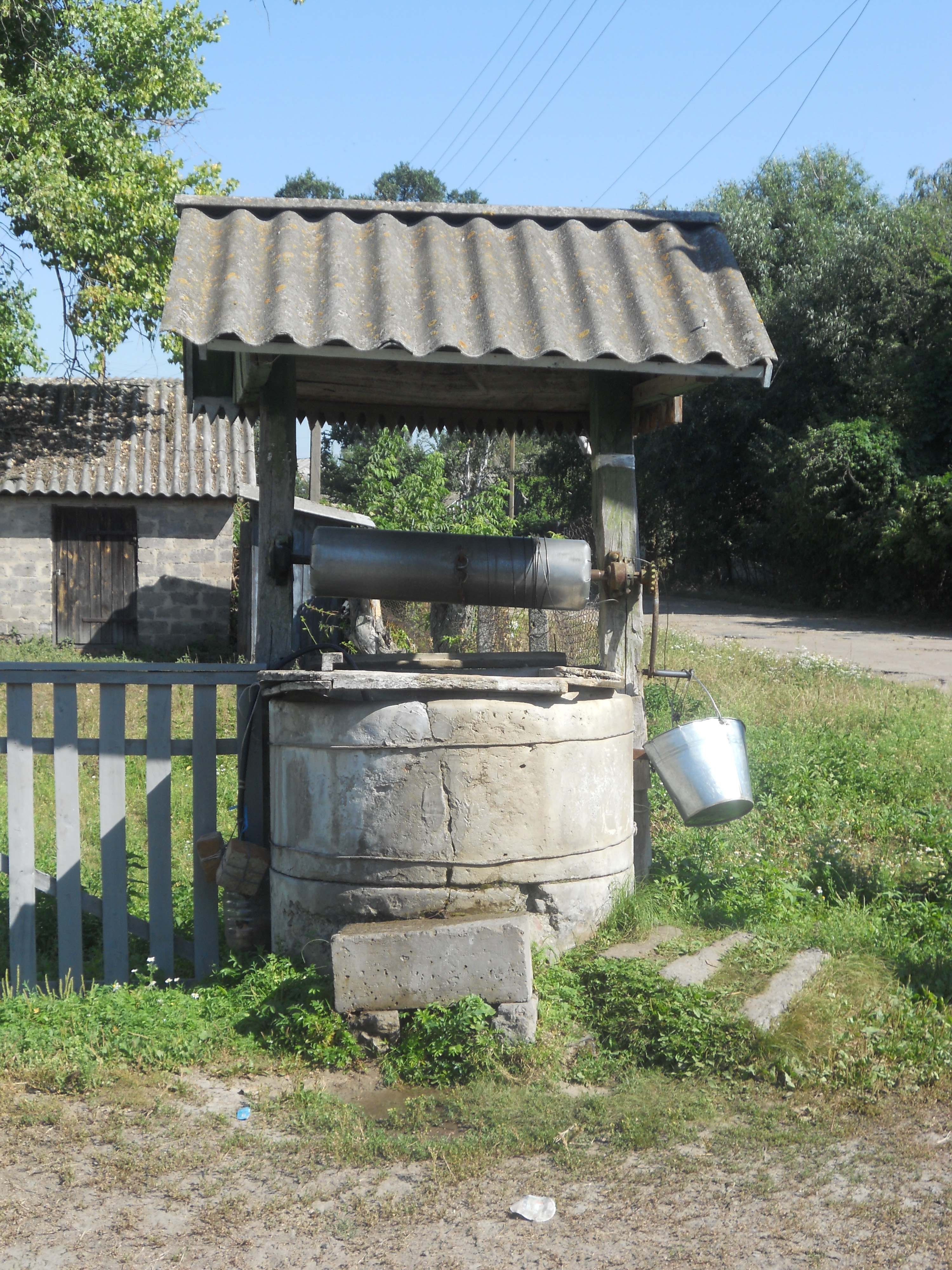 Medical clinic in village Gorbove, Kulykivka Raion, Chernihiv Oblast, Ukraine